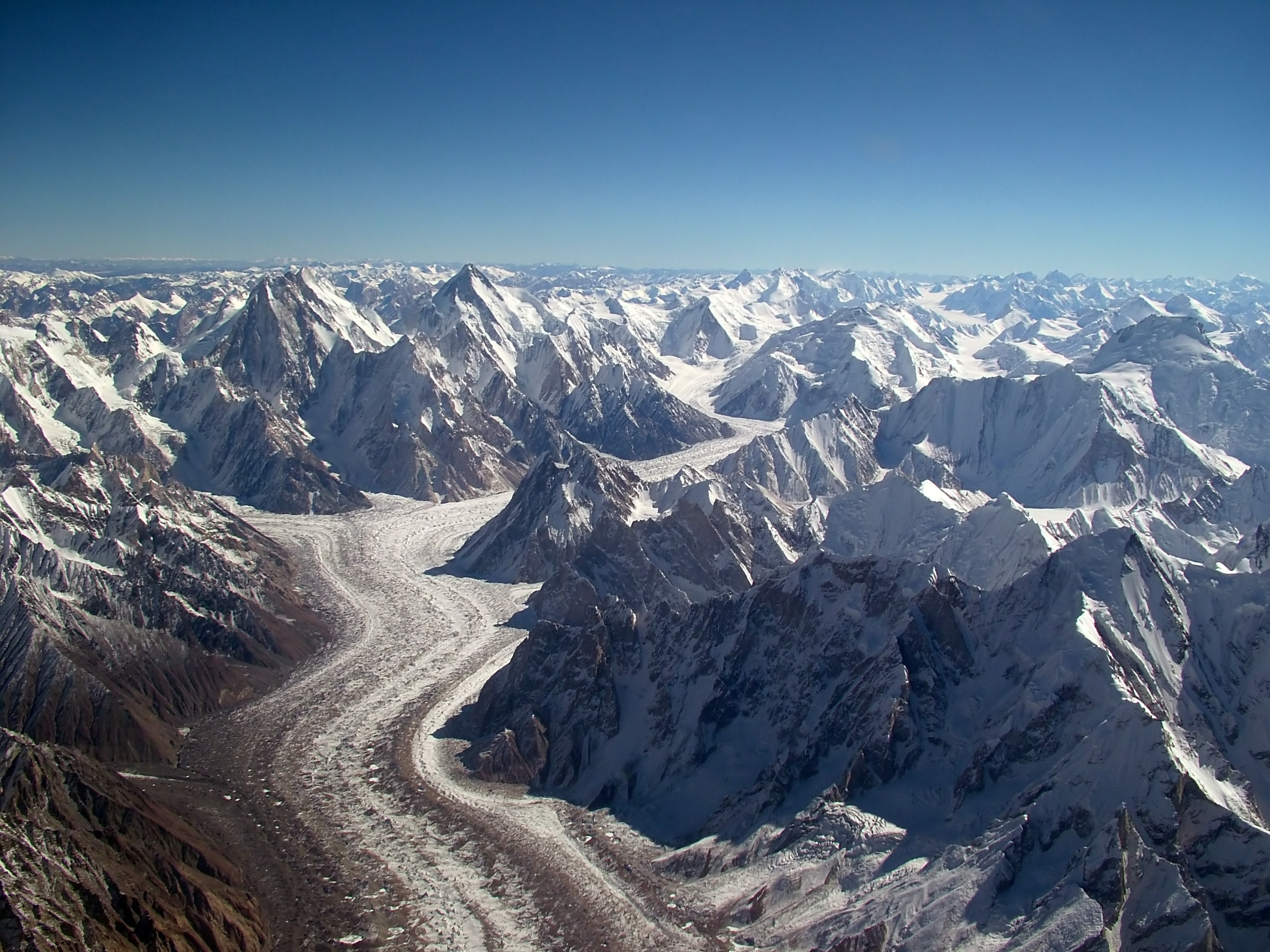 Aerial View of the Baltoro Glacier towards Concordia with Gasherbrum IV and Gasherbrum I on the left, Baltoro Kangri and Chogolisa on the upper right ; Mitre Peak is right in the center (where the glacier turns left while flowing down).